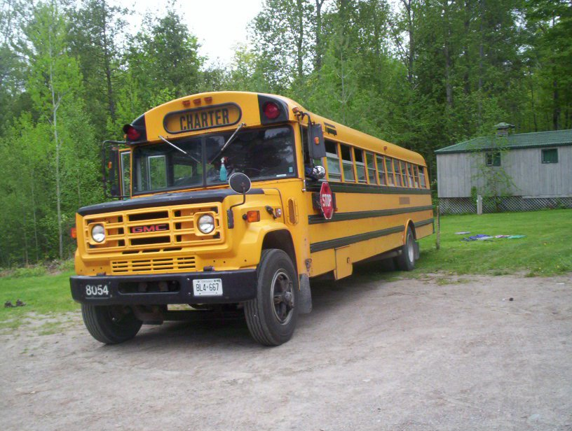 US schoolbus at a camp000_0533